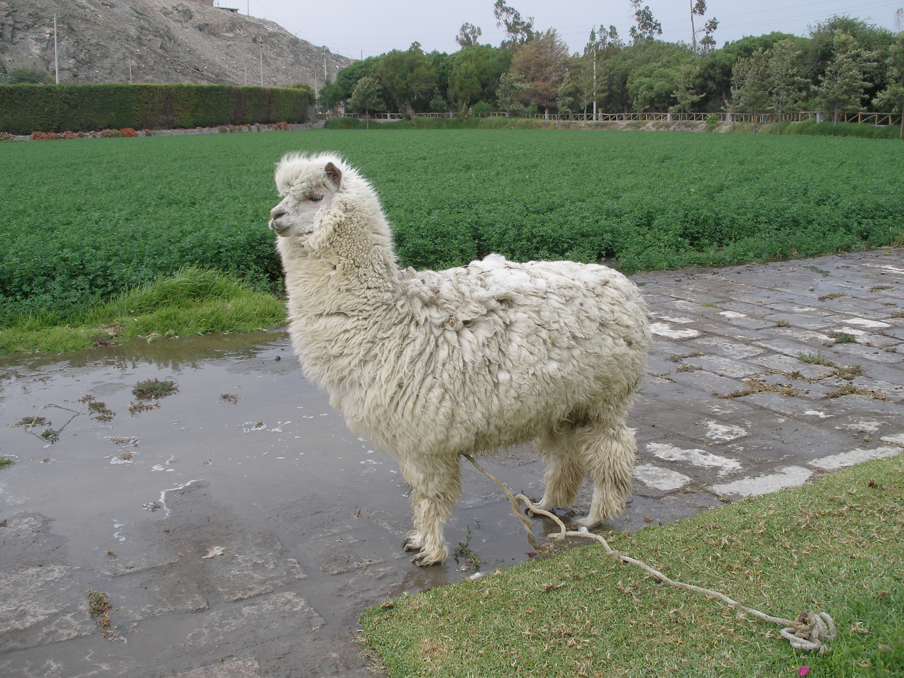 Most domestic animals in Peru are tied to a stake and left to graze there. Once or twice a day the owner will move the stake to a new patch. Animals of Peru.